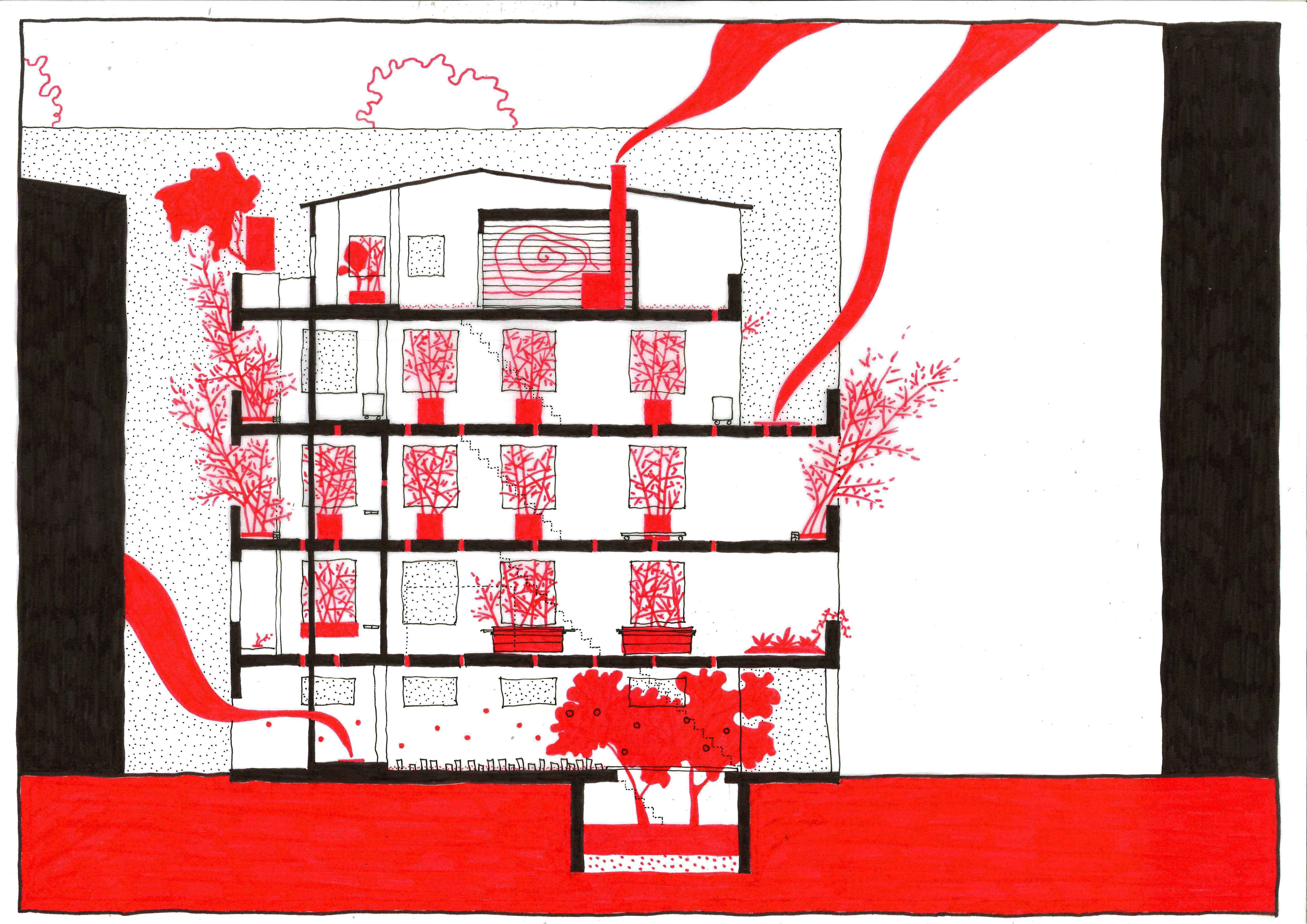 Section of the Ruin Academy in Taipei. Drawing Marco Casagrande.